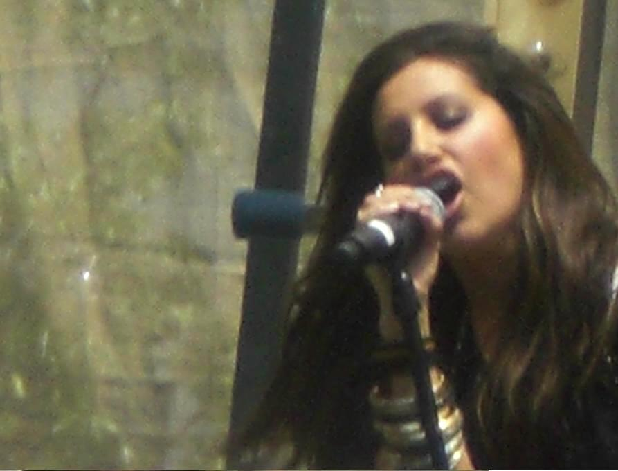 Ashley Tisdale performing in The Grove